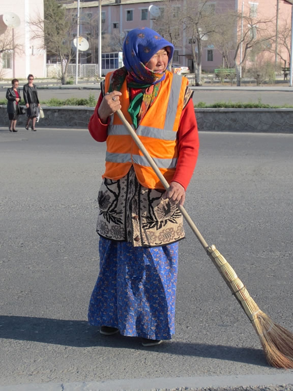 street cleaner, Turkmenbashi, Turkmenistan